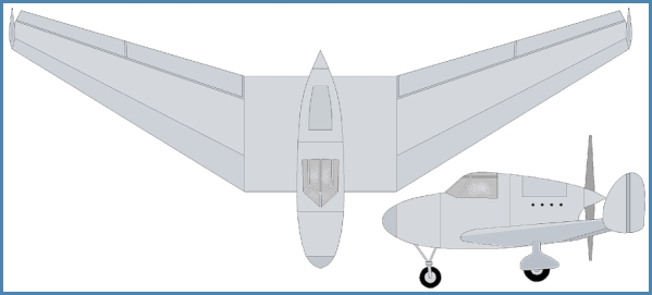 Kayaba Ku-4 1942